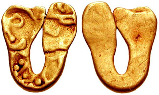 India, Uncertain. "Walve Hoard" Type. Circa 12-13th century. AV U-shaped "Larin" (0.41 gm). Gold wire, bent into a U-shape and stamped with three punches: two with Kannada inscriptions, one with uncertain animal. See P.L. Gupta, "Interesting Hoard of Gold Coins from Walve," in JNSI XX (1958), pp. 78-80 (pl. V, 1-4) These gold wire coins are similar in method of manufacture to the larins of the Indian Ocean littoral, although apparently several centuries earlier. The four pieces from the Walve Hoard bear the symbol of a boar, while the handful of pieces found subsequently have a different mark, either another type of animal or possibly a goddess. The Kannada legends have never been adequately translated.